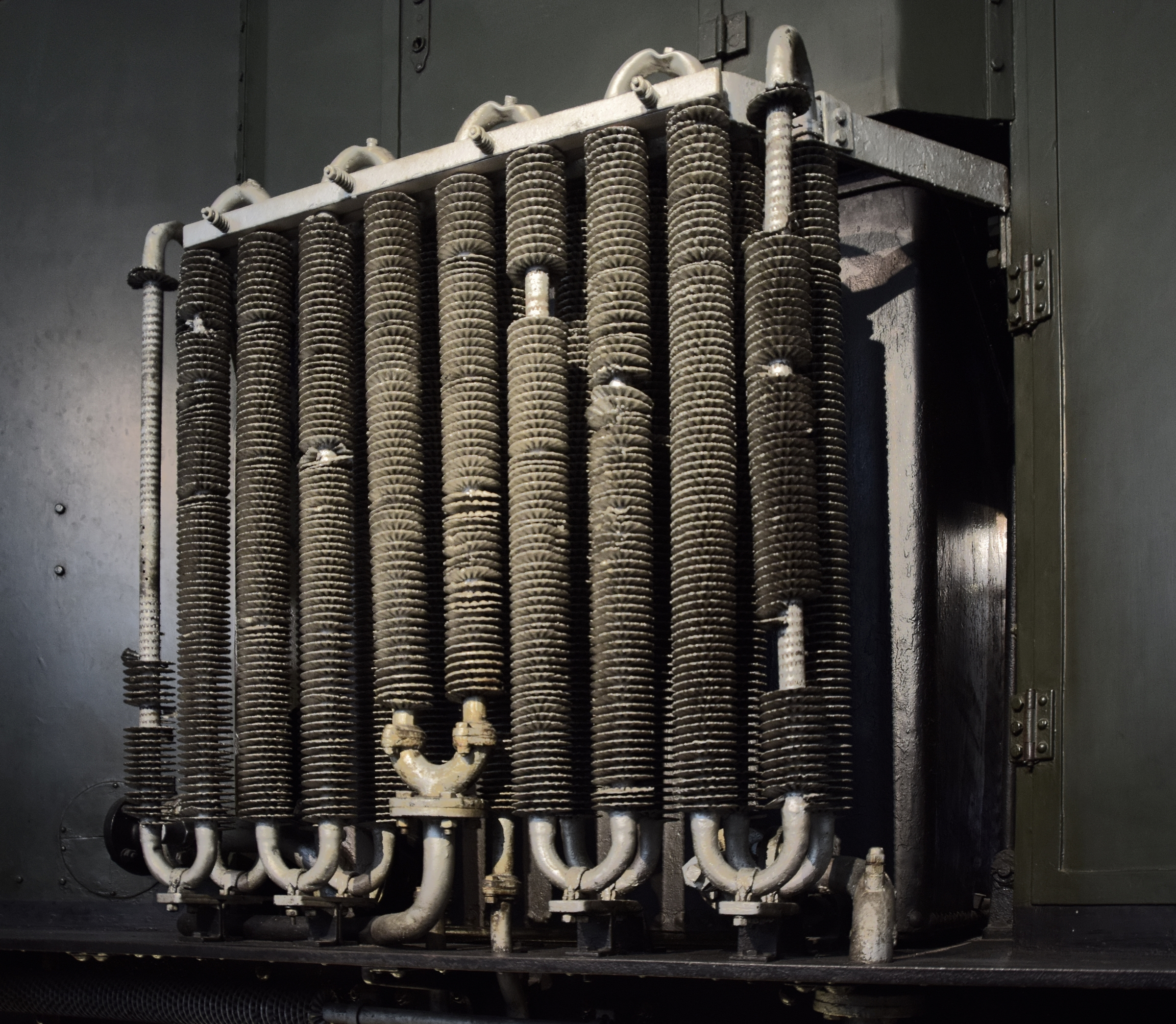 External cooling pod for the transformer oil of a DRG Class E 71.